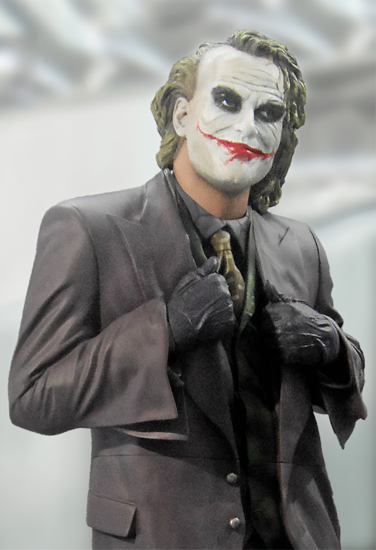 Starring The Joker at the Romics, the international Comics and Animation Film Festival in Rome, Italy.